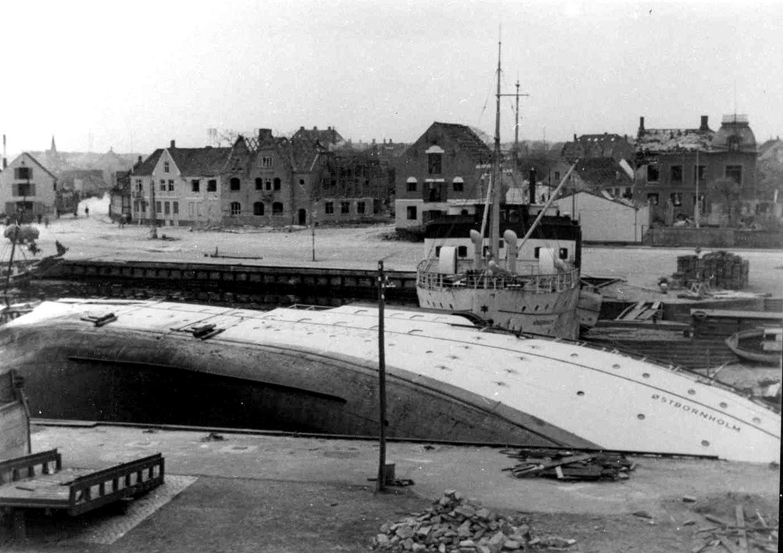 The port of Nexø following the May 7-8, 1945 Soviet air raids.